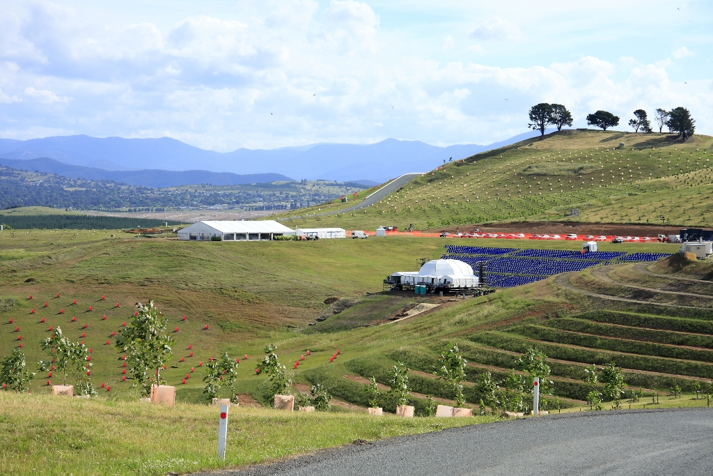 Looking south south east from the Chinese Tulip Tree plantings across the Central Valley at the Event Pavilion, National Arboretum, ACT, Australia